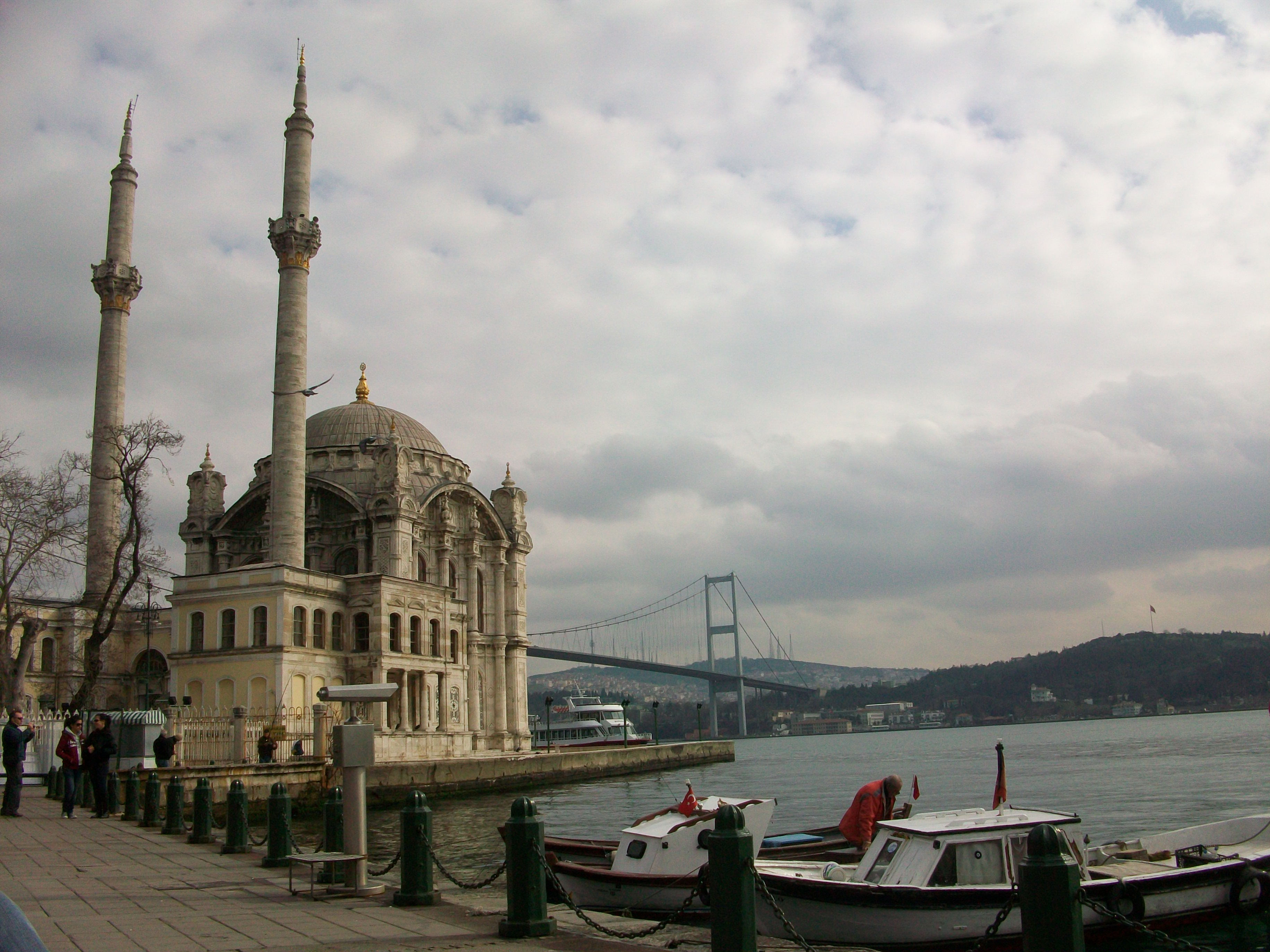 Büyük Mecidiye Mosque.